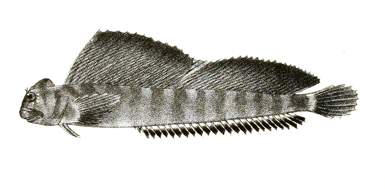 The species names / identity need verification. The original plates showed the fishes facing right and have been flipped here. Salarias tridactylus